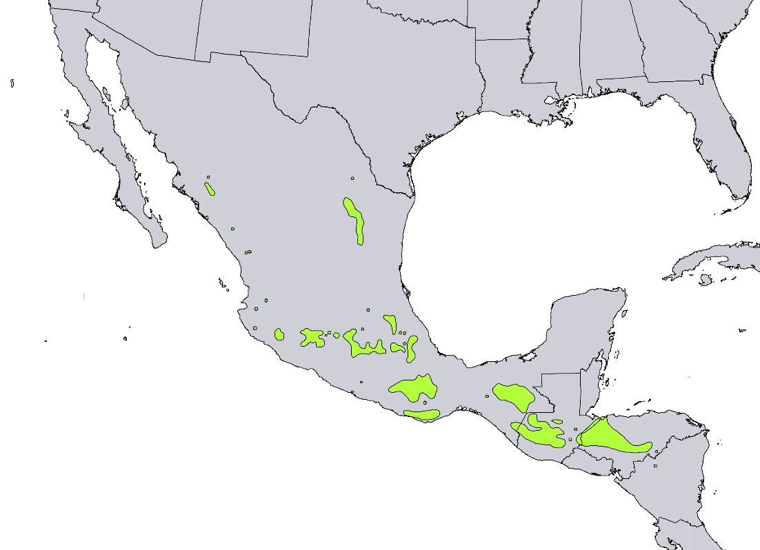 Range map of Pinus pseudostrobus